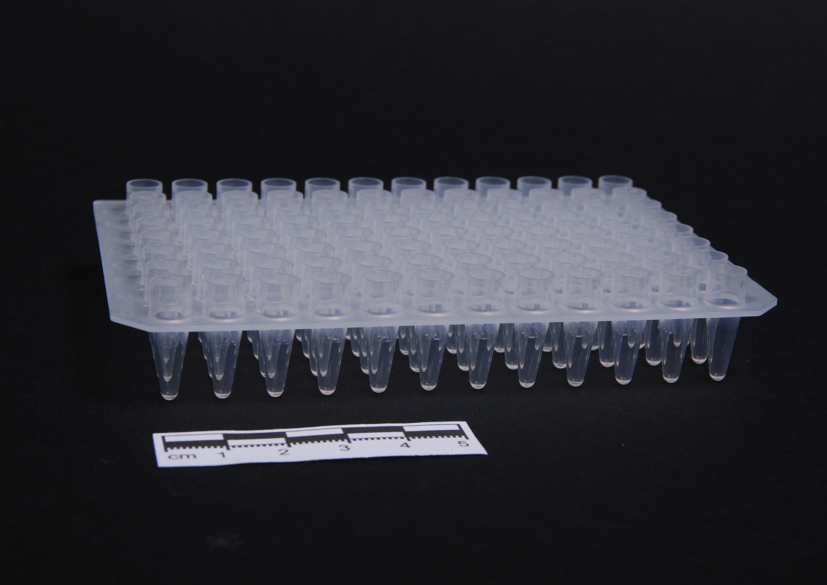 96 well PCR plate.